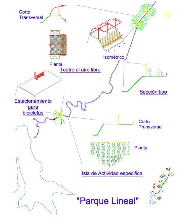 Proyecto lineal (b)